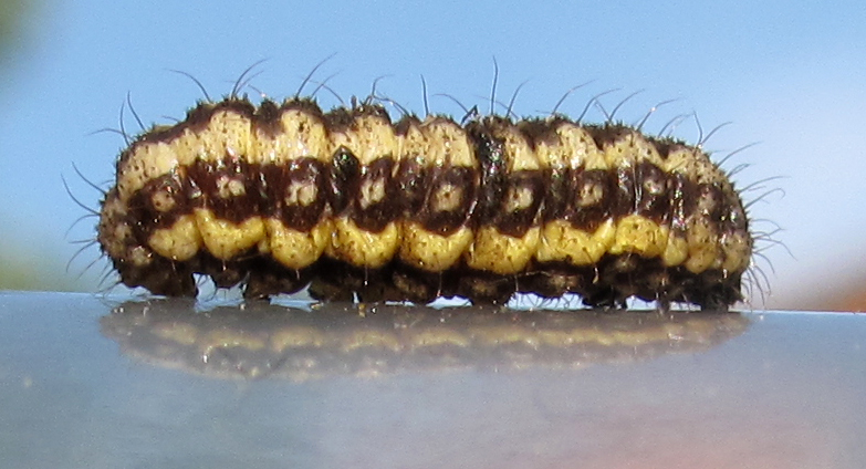 Caterpillar of Heterogynis zikici, lateral view Srpski (latinica): Gusenica Heterogynis zikici, lateralno